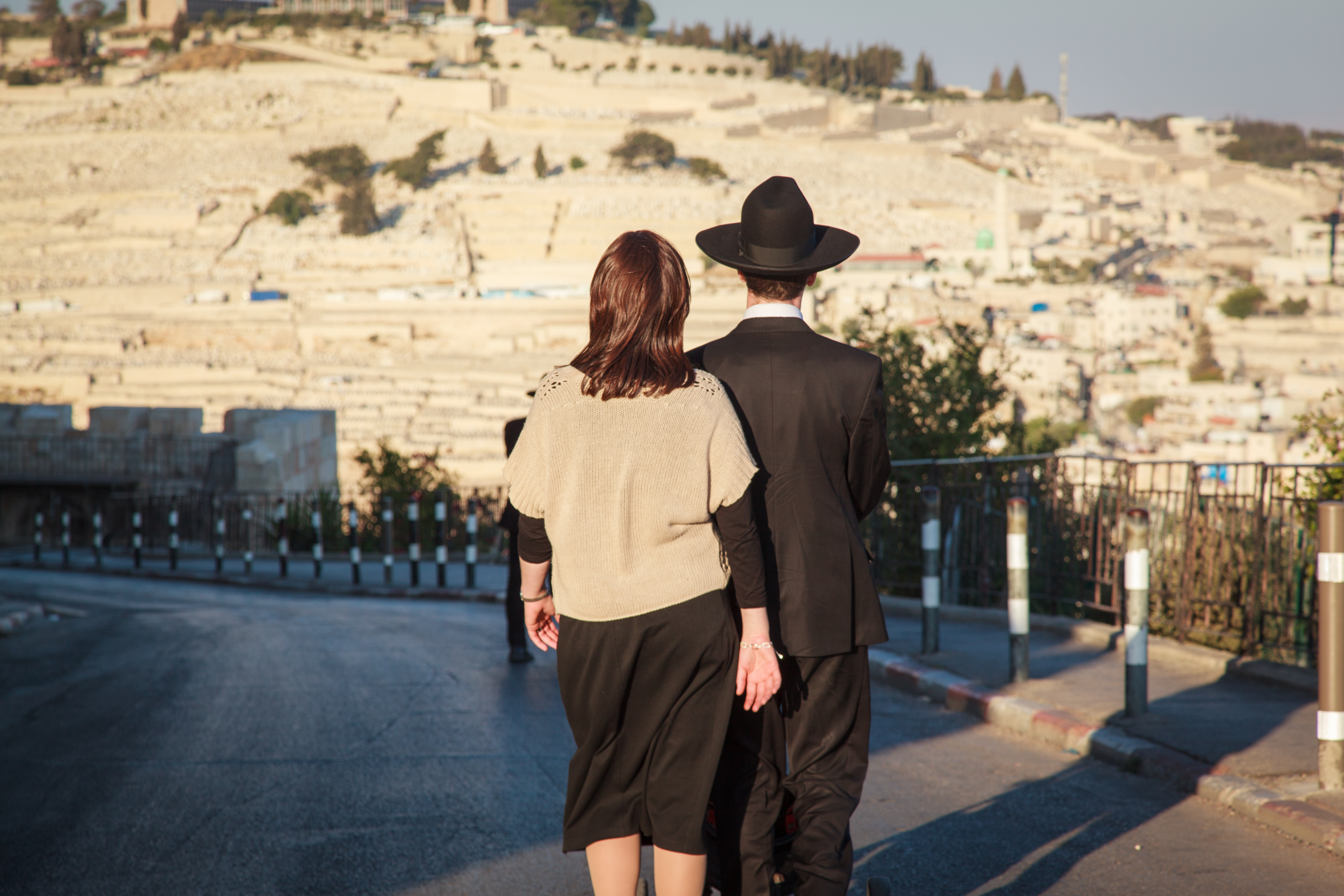 Old Jerusalem, Batei Mahase street, Haredi woman and man - in the background, Mount of Olives Jewish Cemetery